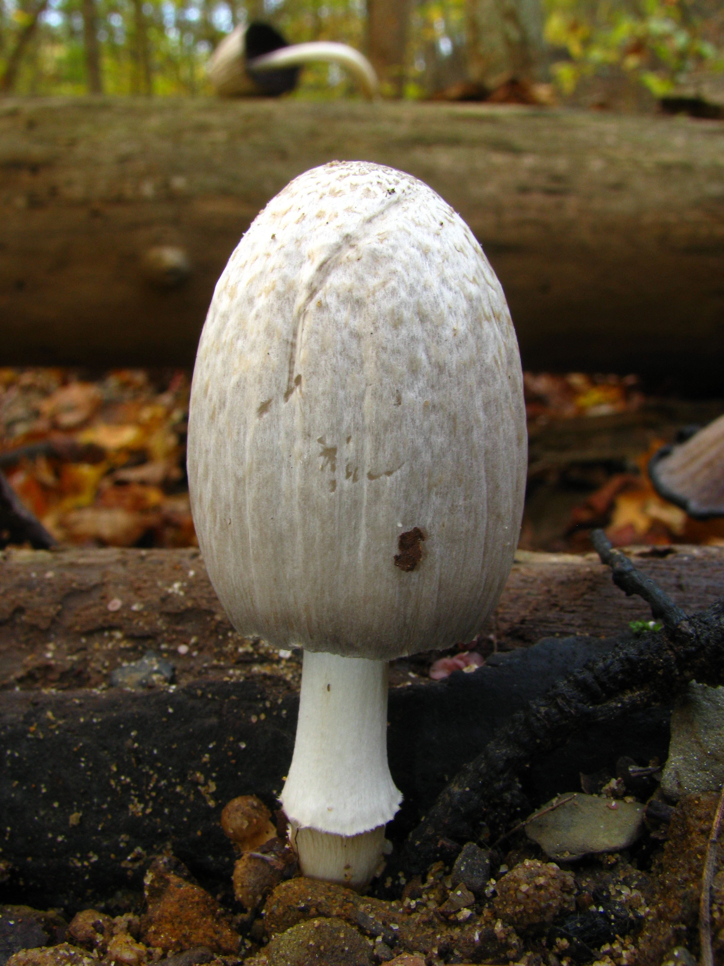 Coprinopsis atramentaria (Bul.) Redhead, Vilgalys & Moncalvo Location: Strouds Run State Park, Athens, Ohio, USA Observation Notes: These were growing in great numbers from the roots of a dead elm on the bank of a dry stream bed. For more information about this, see the observation page at Mushroom Observer.